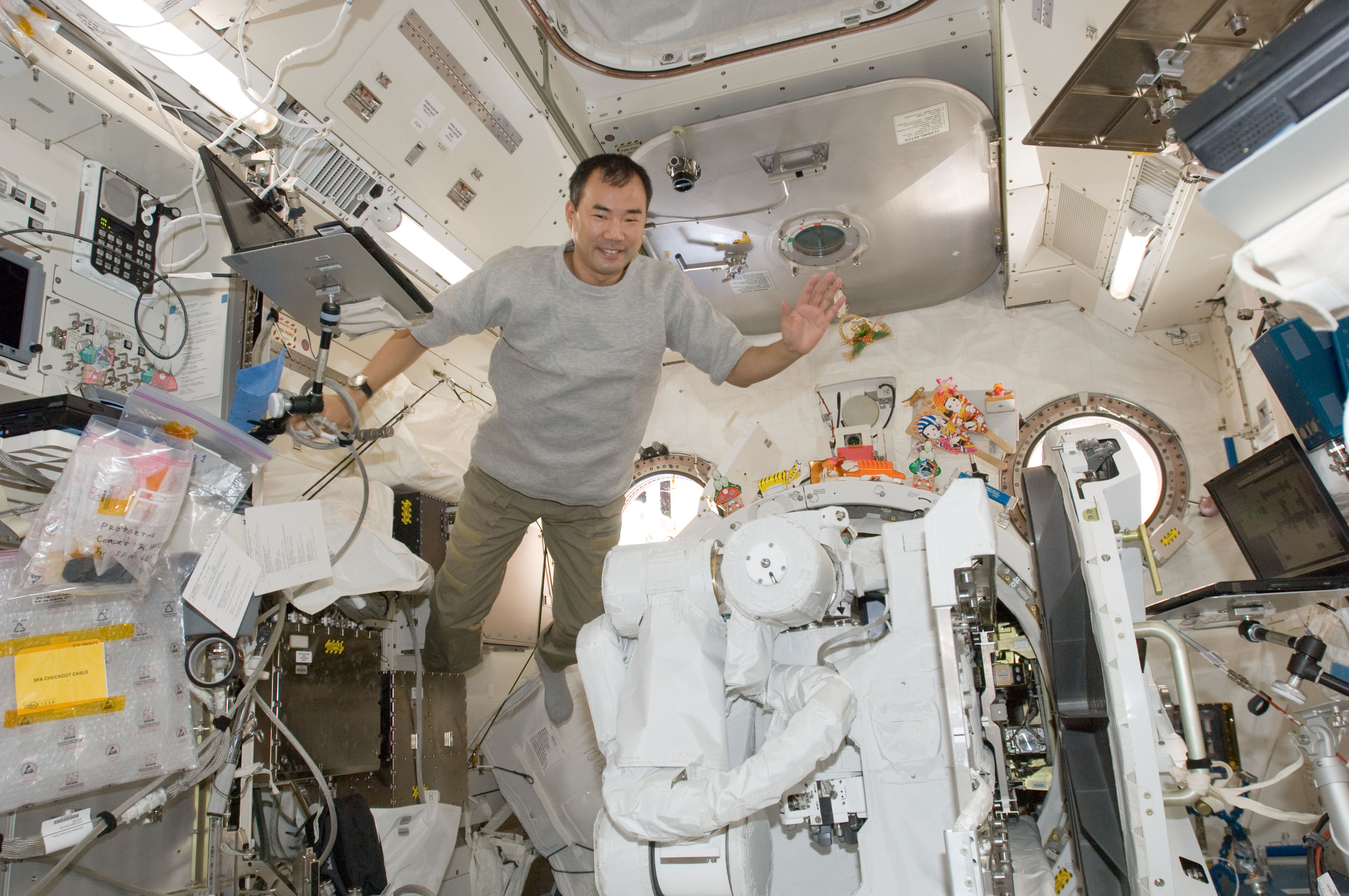 Japan Aerospace Exploration Agency astronaut Soichi Noguchi, Expedition 22 flight engineer, is pictured near the Japanese Experiment Module Remote Manipulator System (JEMRMS) Small Fine Arm (SFA) in the Kibo laboratory of the International Space Station.